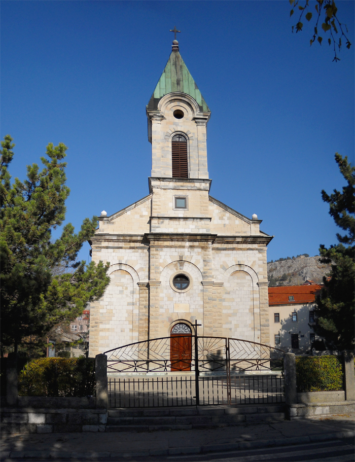 All Saints Church in Livno